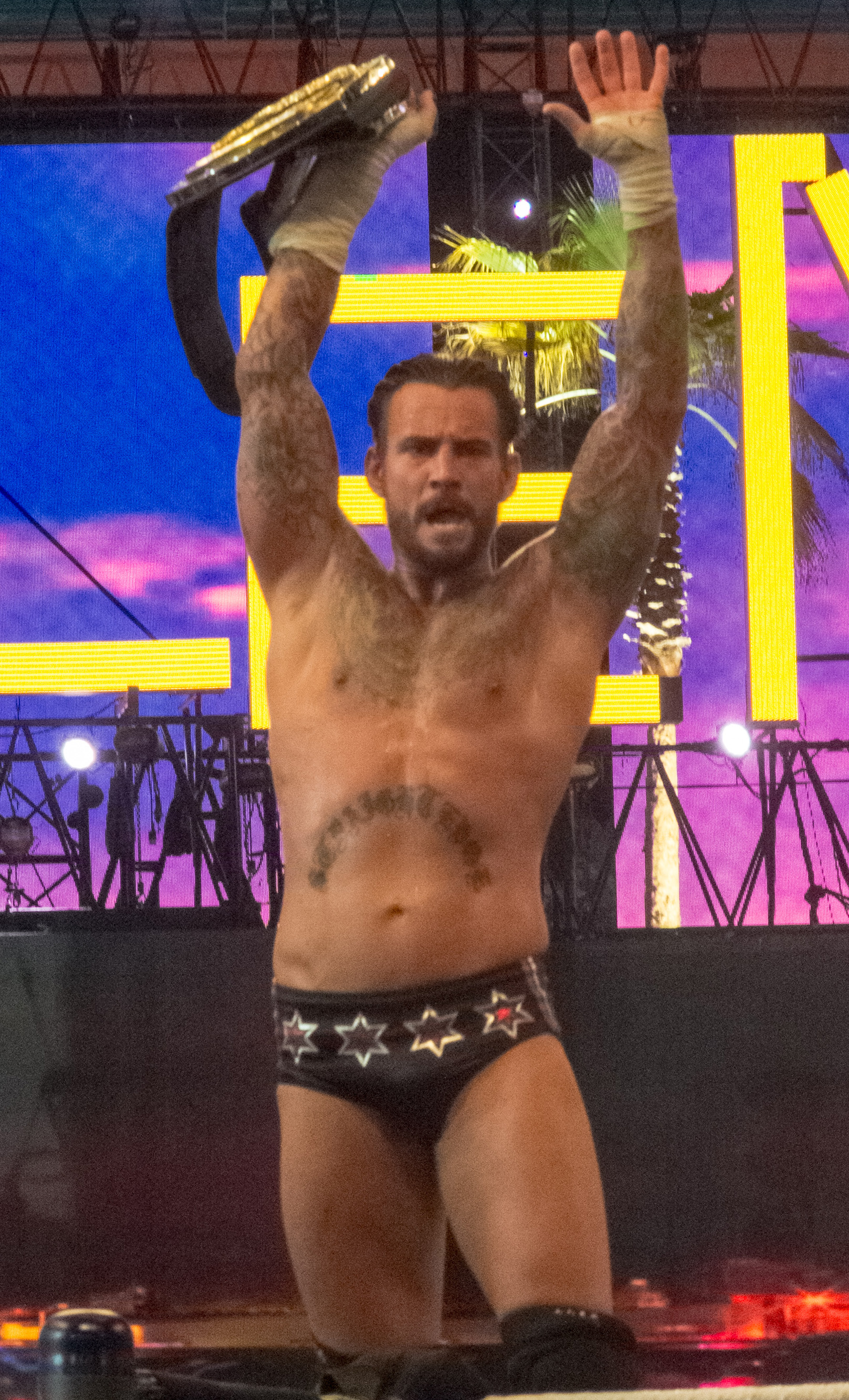 WWE Championship